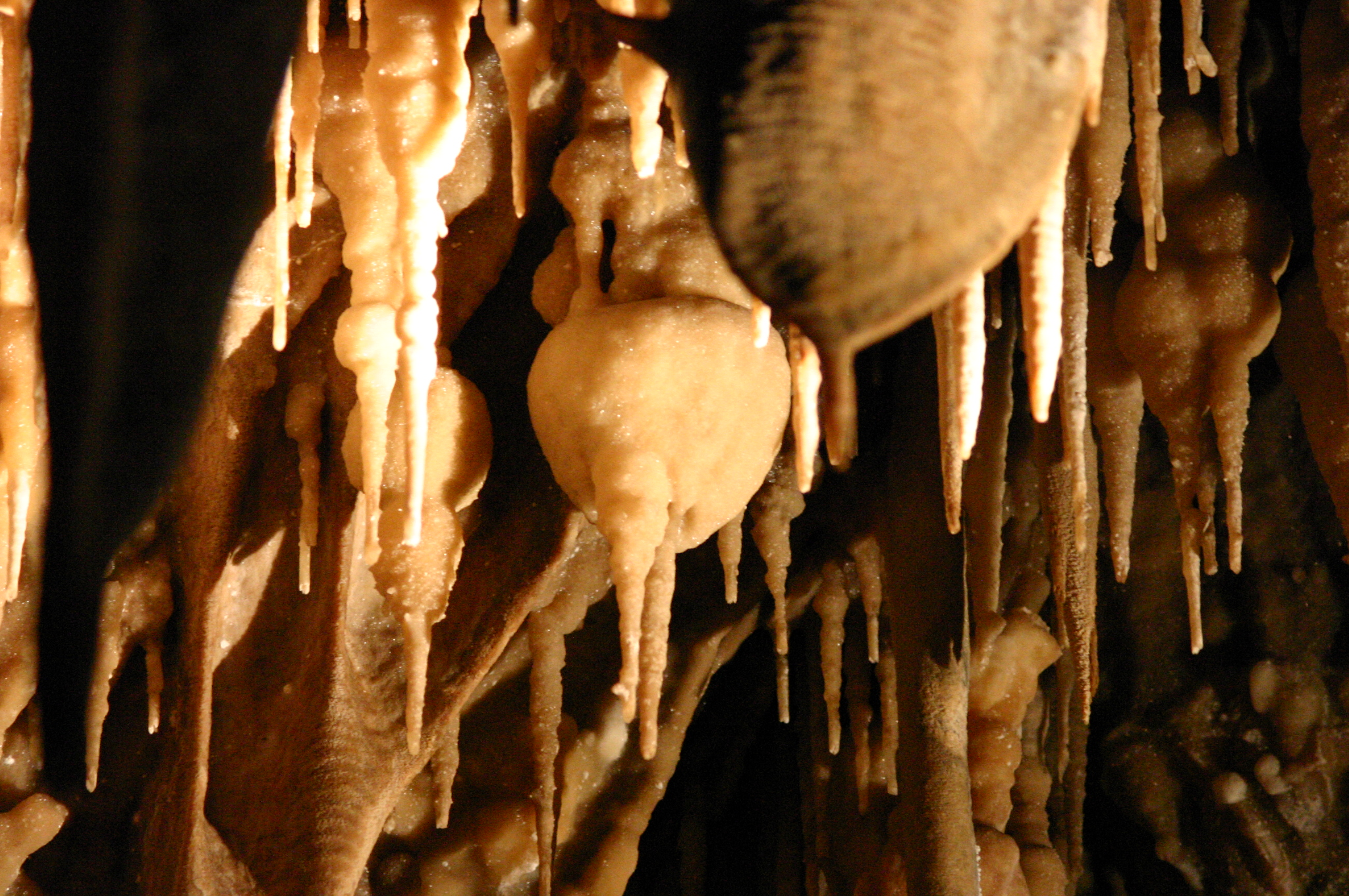 Calabash-shaped stalactites that resemble Chinese red lanterns (e.g. at Tiananmen Square during the Spring festival)